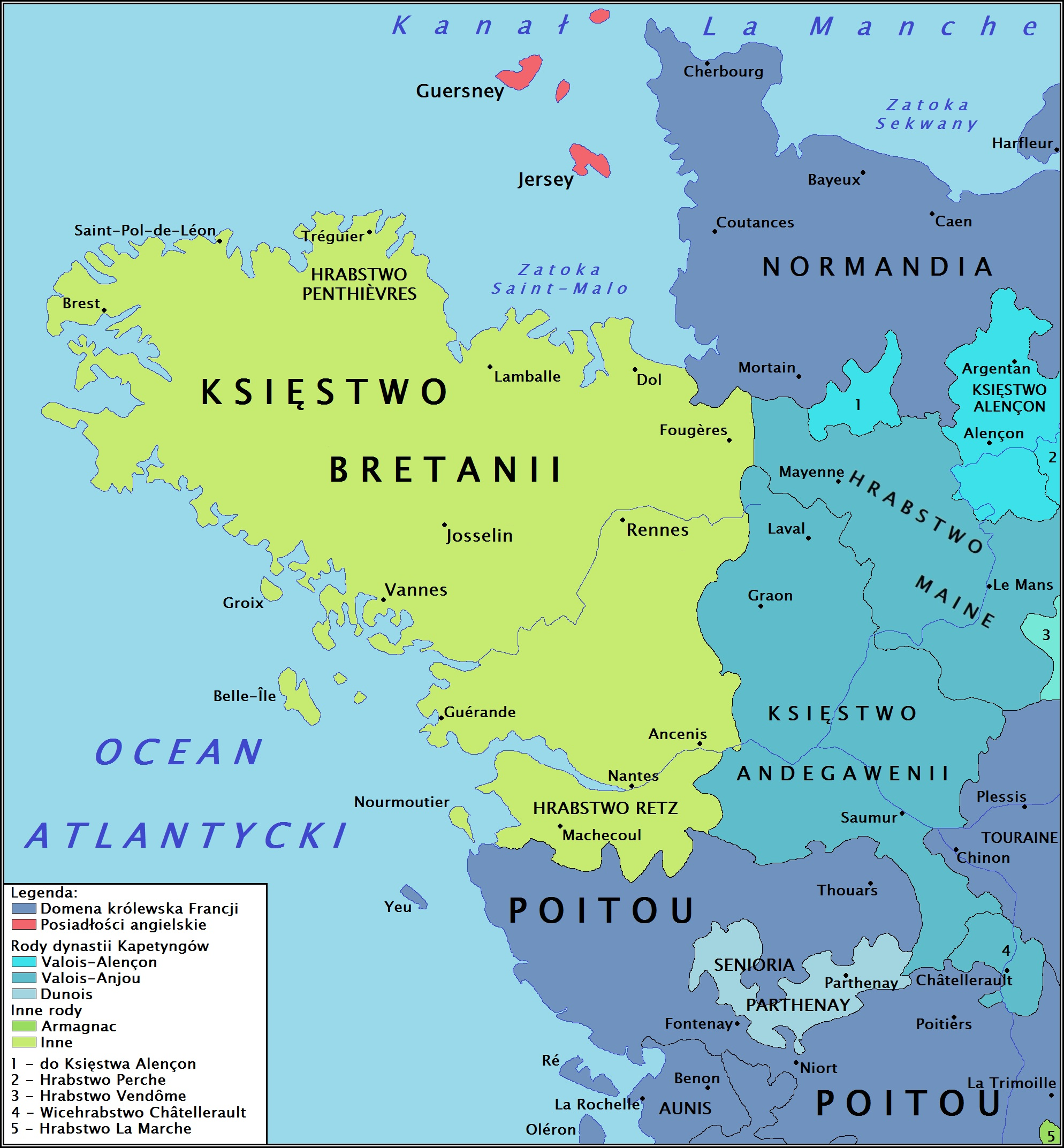 Duchy of Brittany in 1447